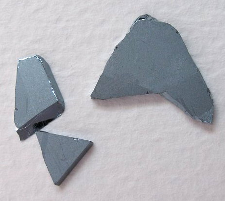 Indium arsenide crystals